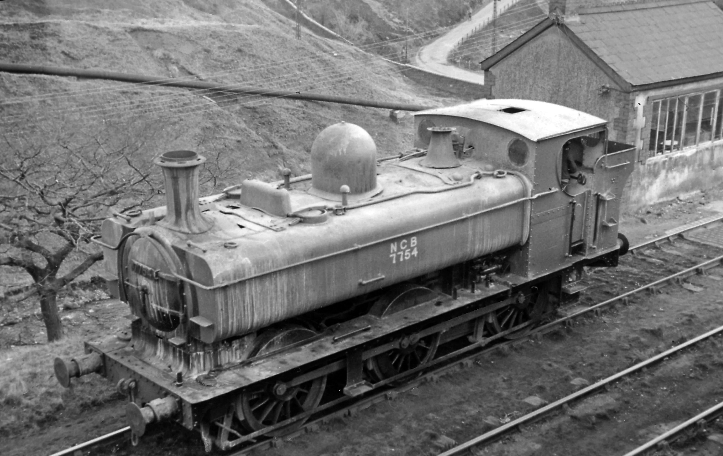 An ex-GW '5700' 0-6-0PT working for the National Coal Board at Brithdir. No. 7754 was built in 12/30 and sold to the NCB in 1/59.